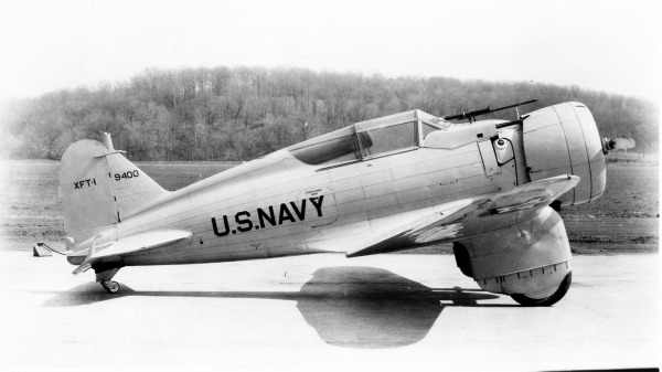 PictionID:40962046 - Catalog:Array - Title:Array - Filename:16_000138 Northrop XFT-1 9400 PMB.tif - - - Ray Wagner was Archivist at the San Diego Air and Space Museum for several years and is an author of several books on aviation --- ---Please Tag these images so that the information can be permanently stored with the digital file.---Repository: San Diego Air and Space Museum